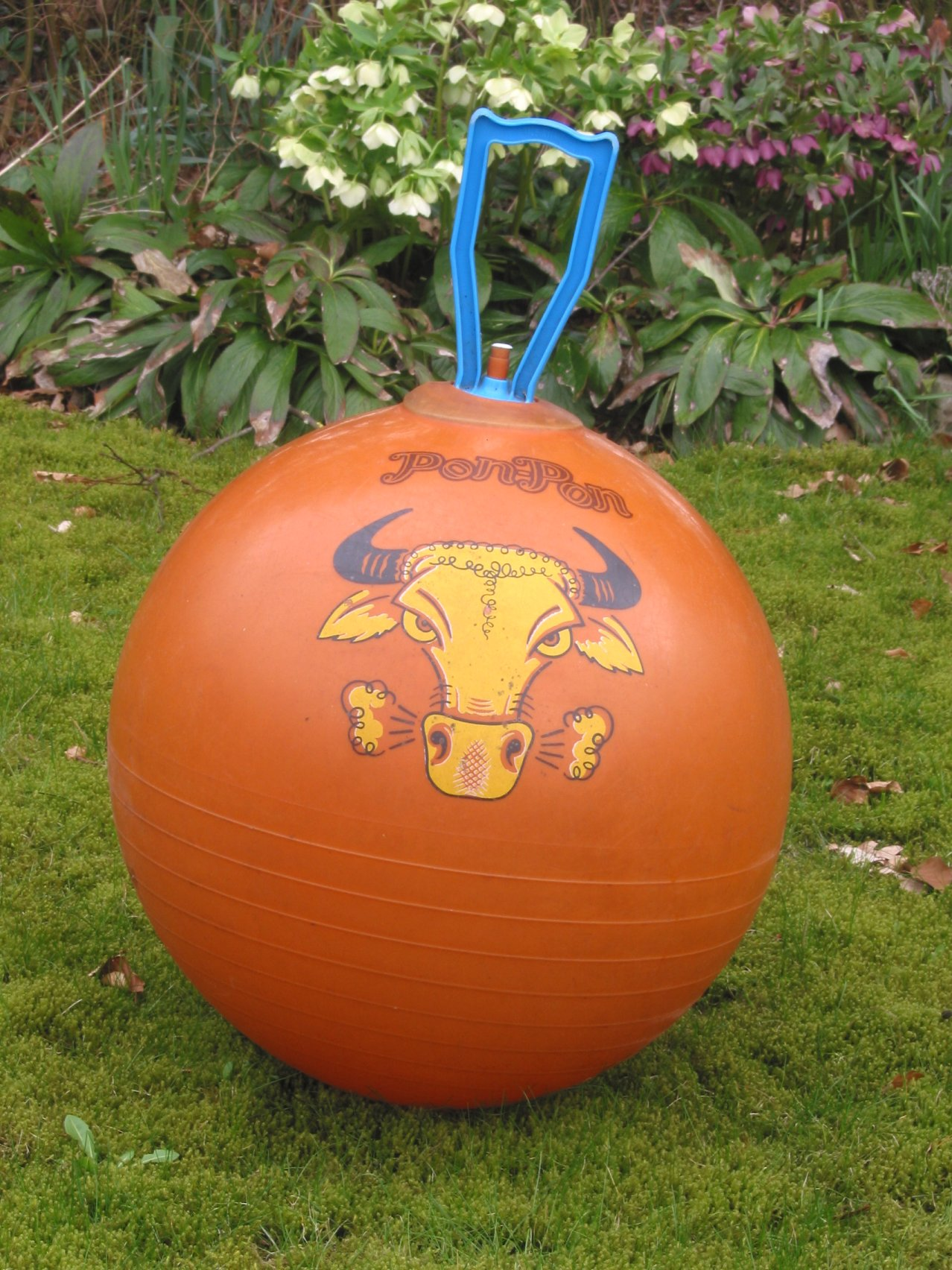 Space hopper